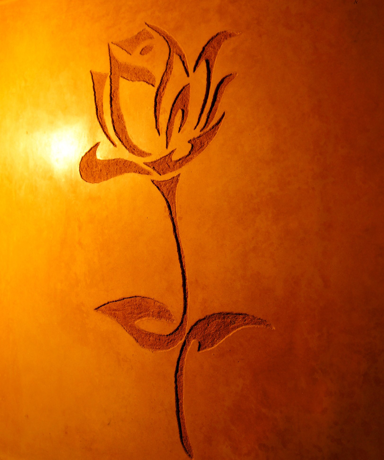 Tadelakt plaster can be scratched by bringing out the below in such a way, that the pattern or shape that emerges is of the lower color. The result is a two-tone design by revealing a ground of contrasting color. This technique is known as Sgraffito. - Project of Minoeco